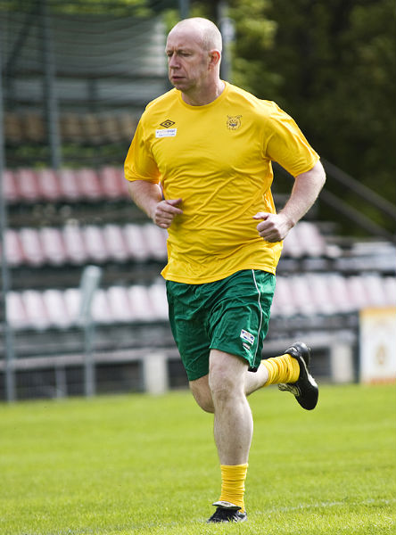 Former football player of Ilves Tampere